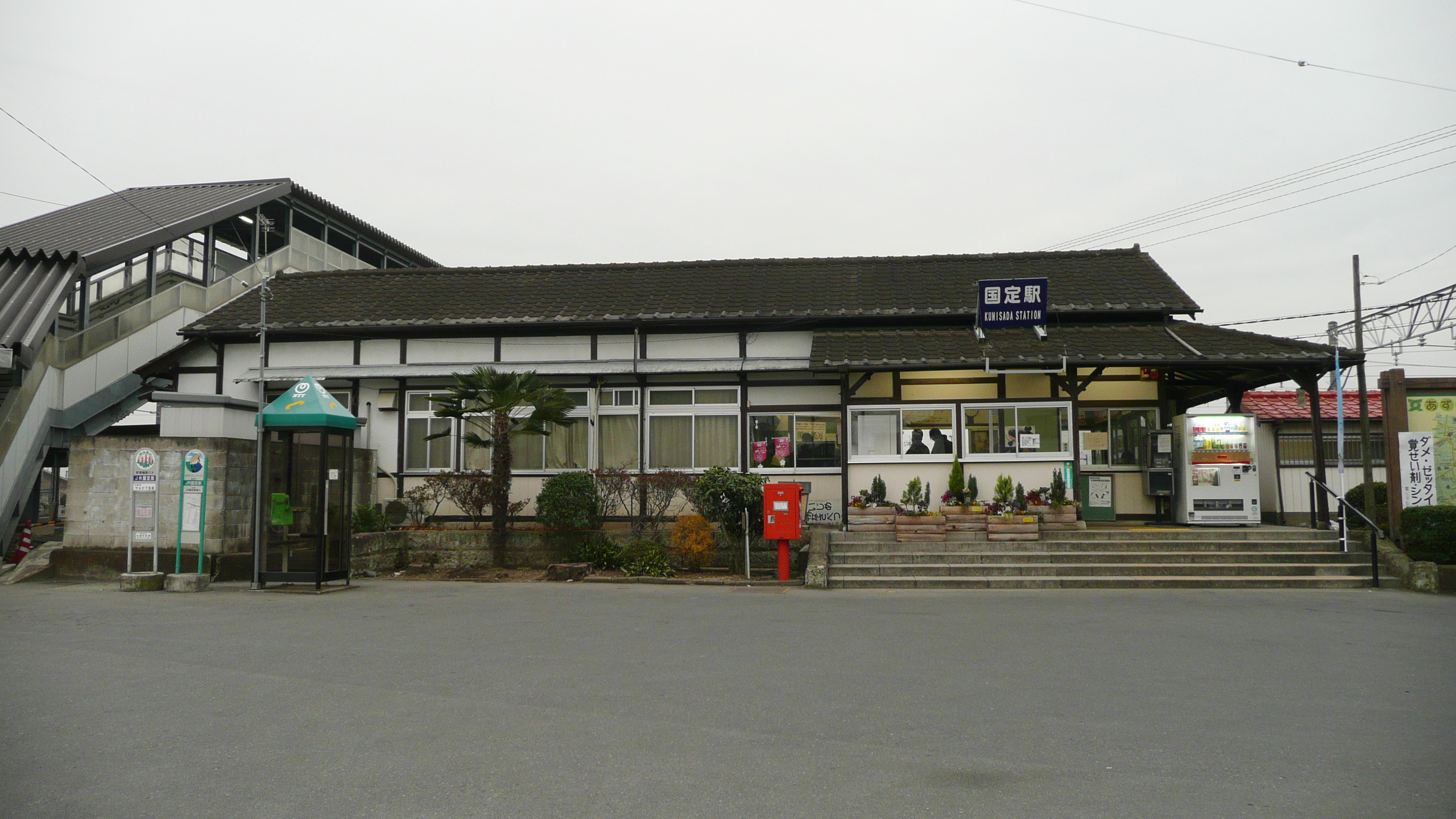 Kunisada Station North Entrance.両毛線国定駅駅舎（北側）